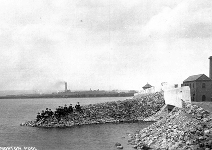 "Children sitting on the wave break at Norton Pool (now Chasewater) during the early 20th century"